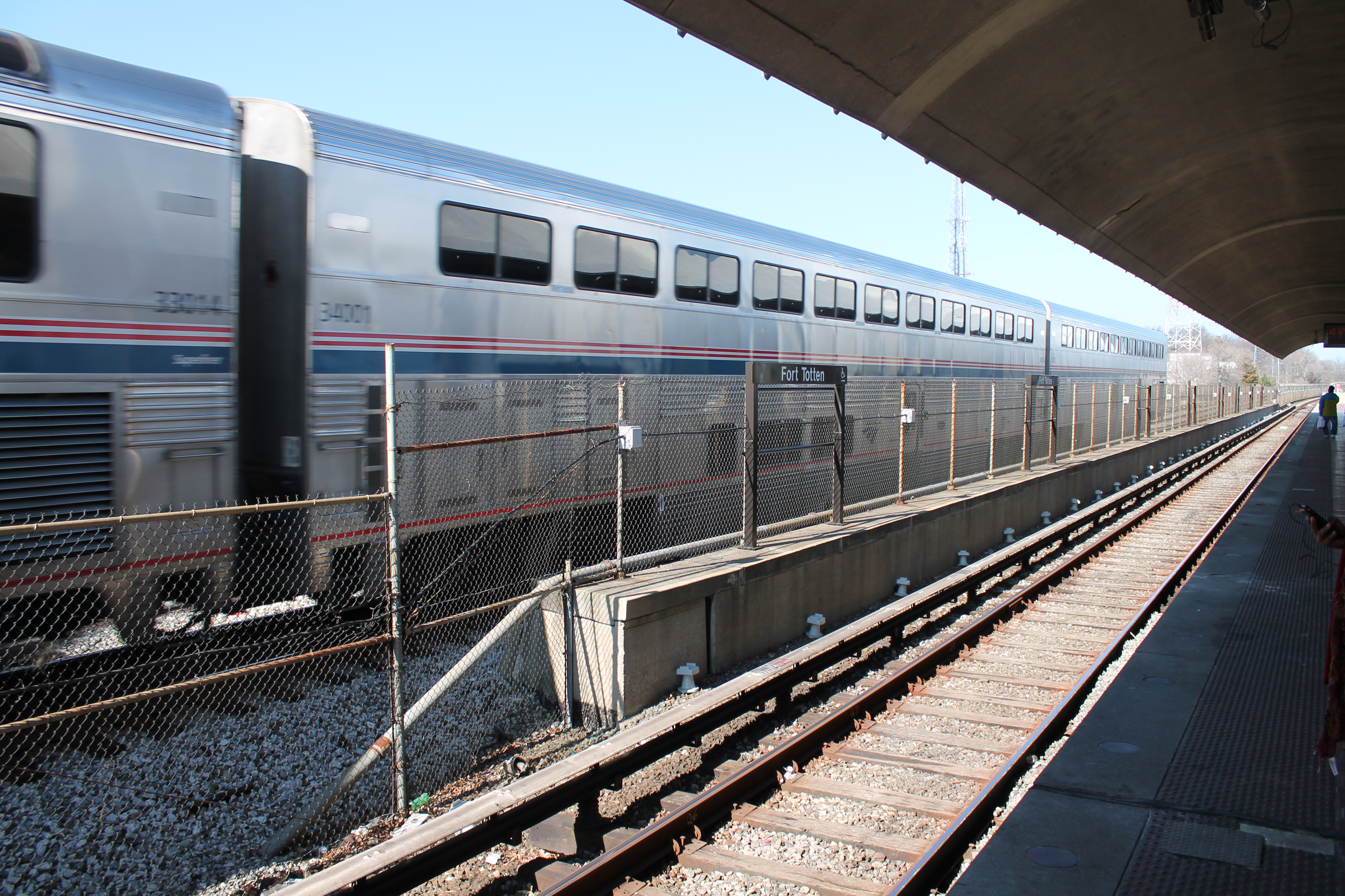 Amtrak's Capitol Limited en route to Union Station passing through WMATA Fort Totten Station in NE Washington DC on Thursday afternoon, 14 February 2013.